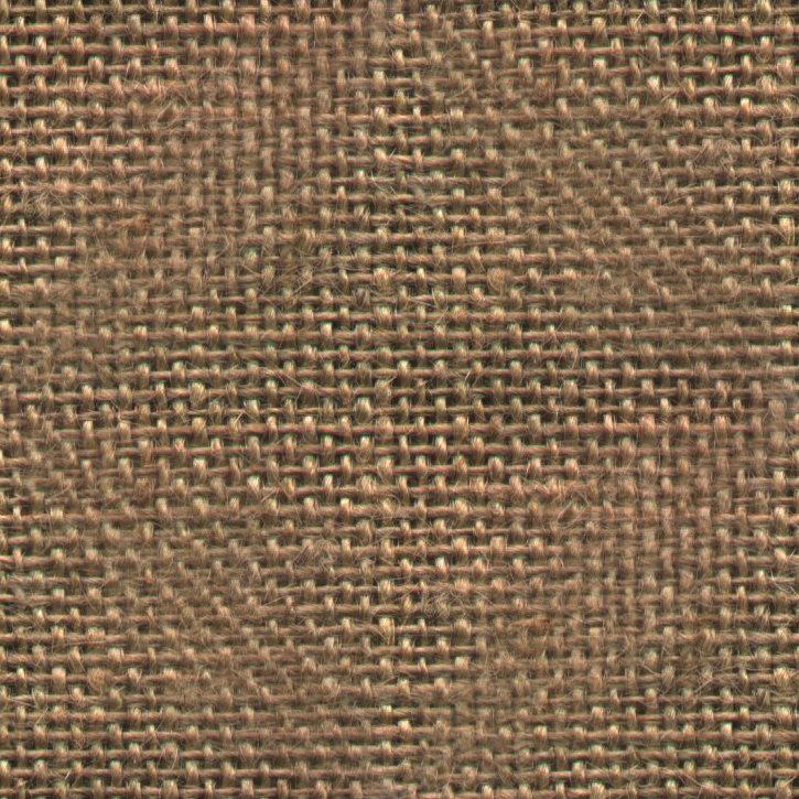 Hessian Fabric made seamless. It will serve to create a normal map in Blender.